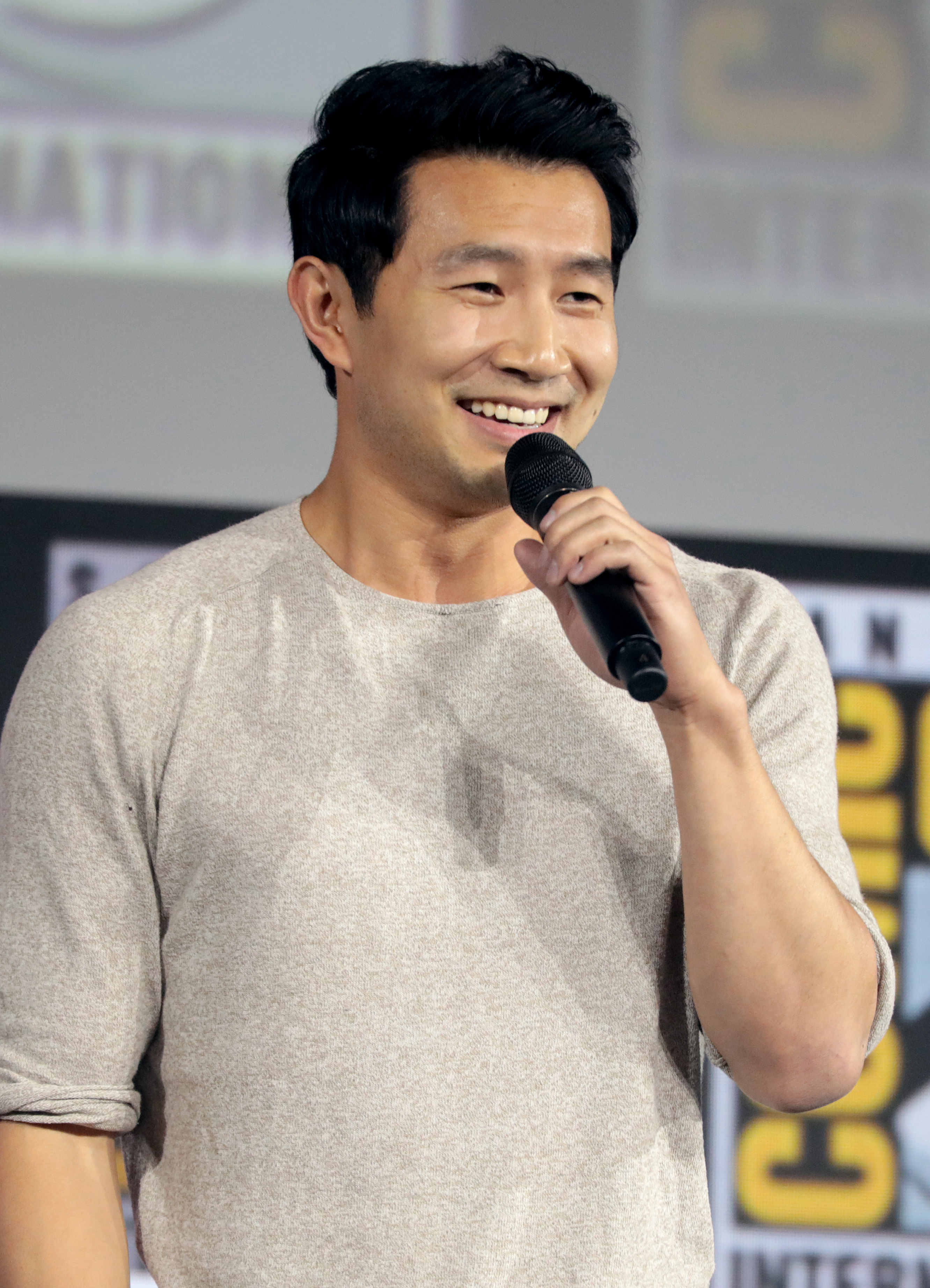 Simu Liu speaking at the 2019 San Diego Comic-Con International in San Diego, California.